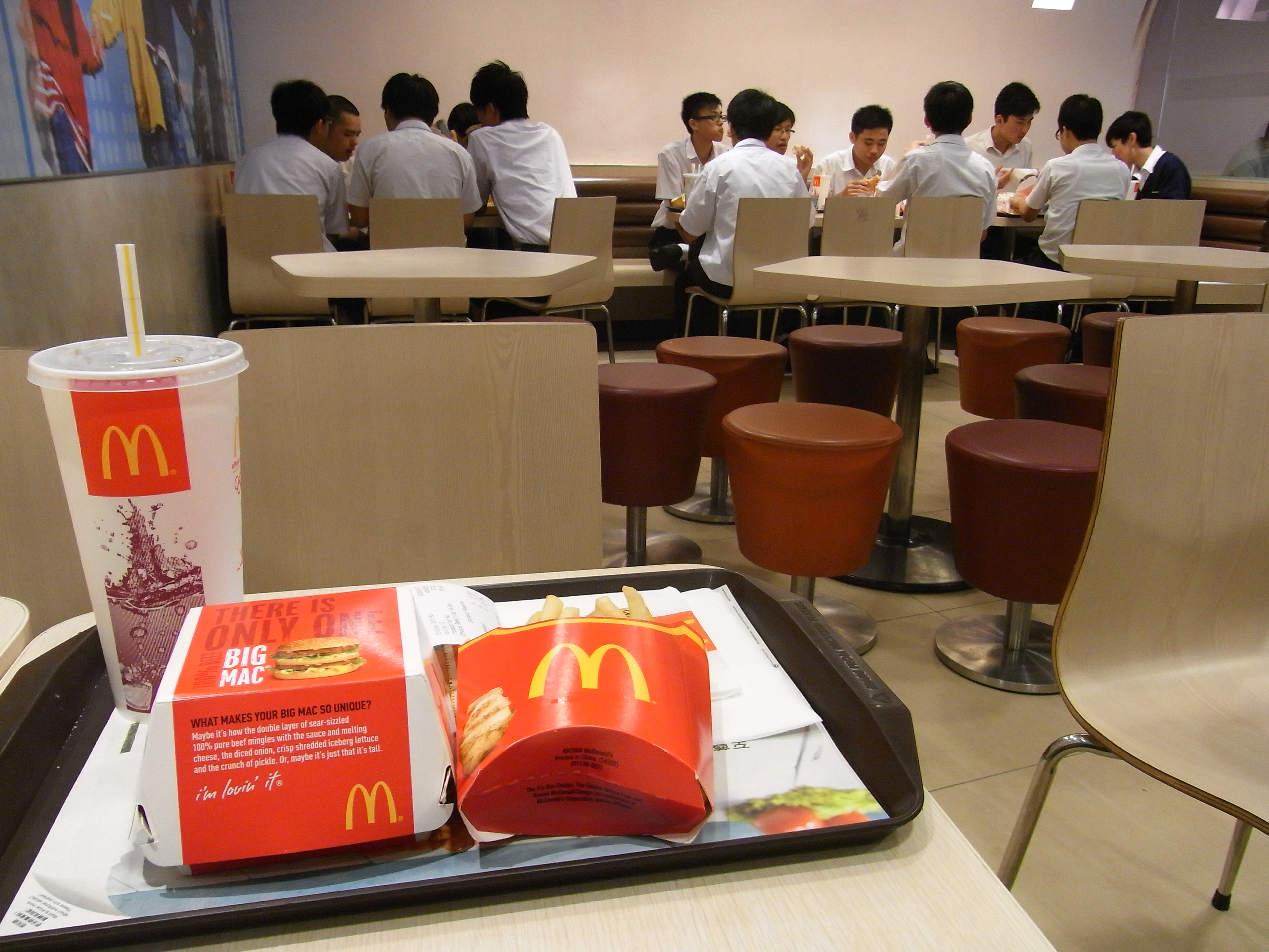 麥當勞, McDonald's in Hong Kong